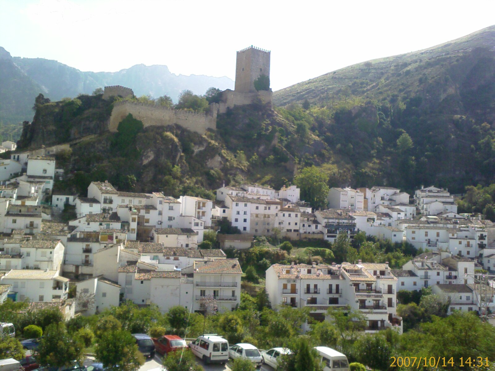 shown pic is the "Castillo de la Yedra" in Cazorla, Jaén, Spain